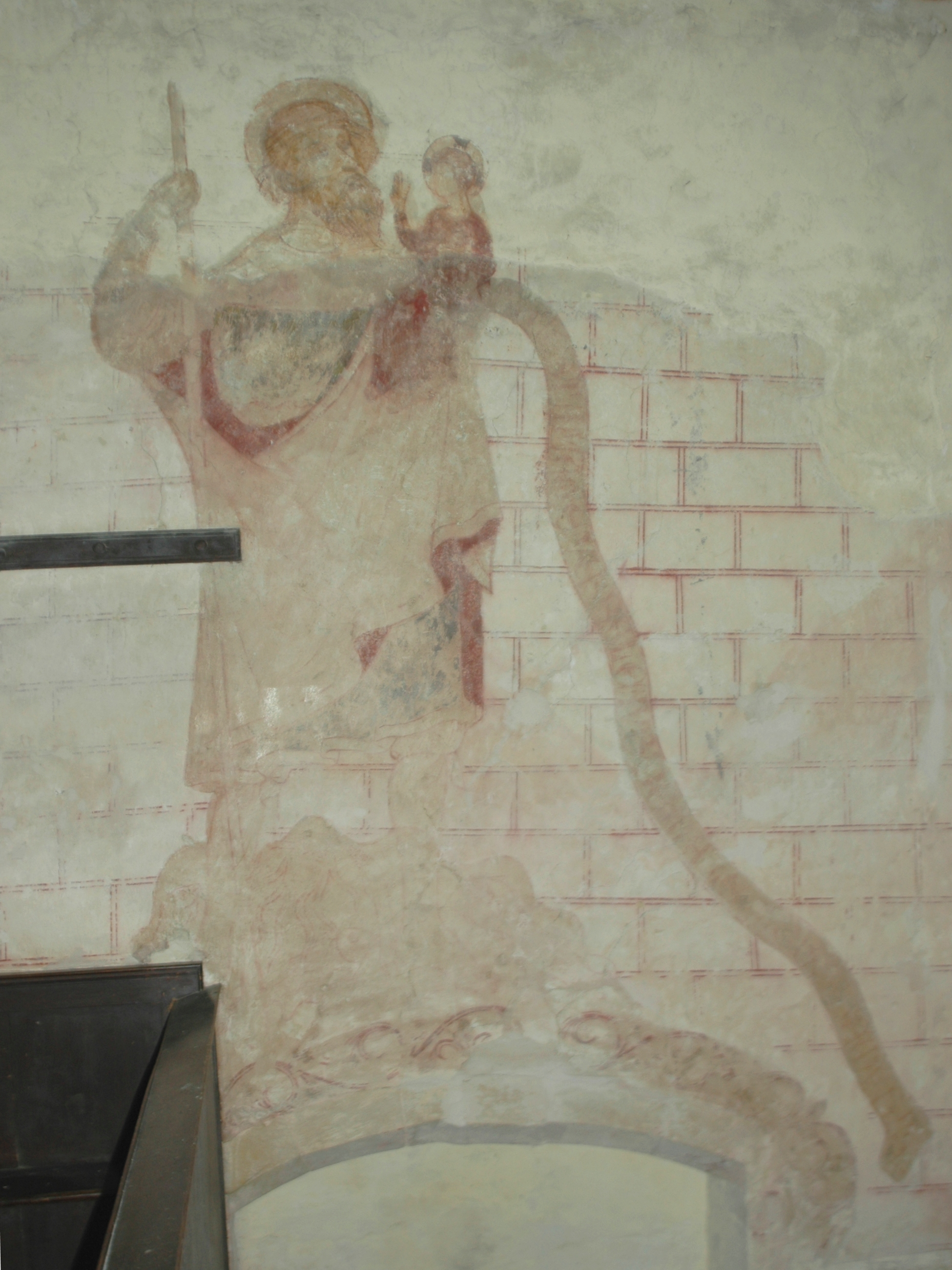 Church of England parish church of the Holy Rood, Woodeaton, Oxfordshire: 14th century wall painting of Saint Christopher.